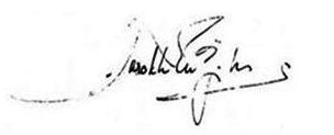 Farokh Autograph